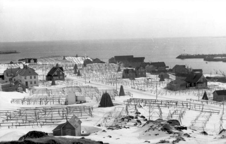 Information added by Wikimedia users.